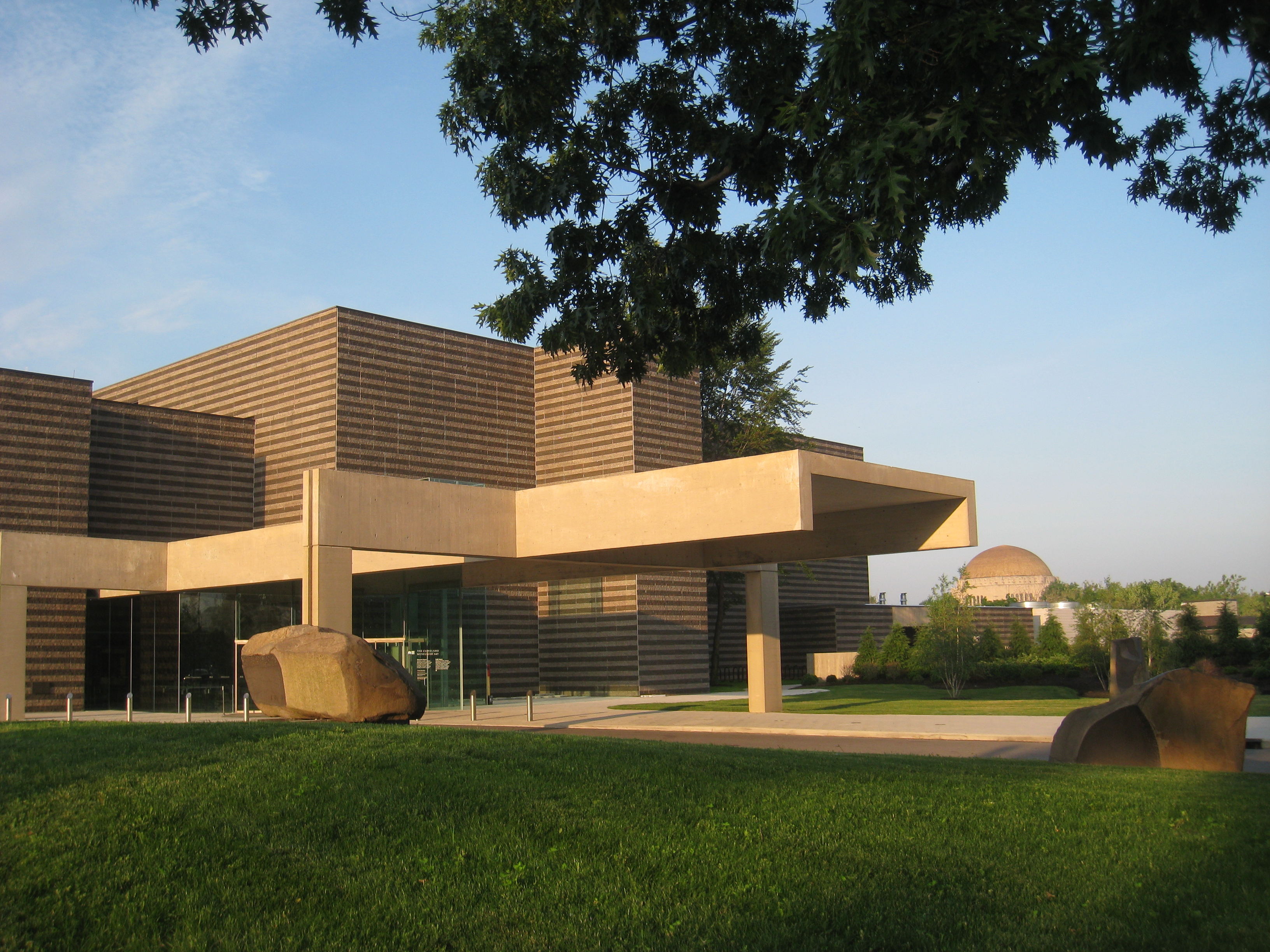 Entryway in Breuer wing, Cleveland Museum of Art, Cleveland, Ohio, USA.